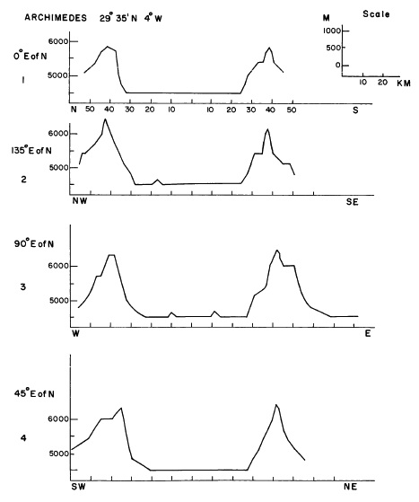 Archimedes crater cross section